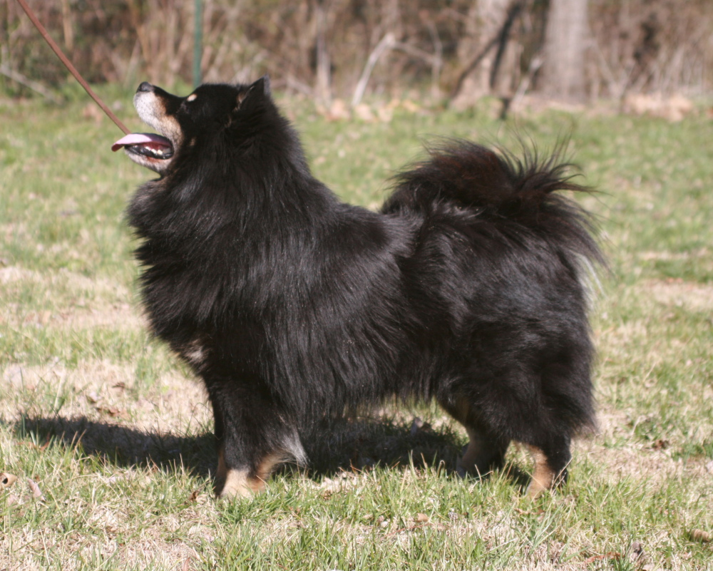 Finnish Lapphund Janmanin Aleksanteri. Owned by Linda Marden, USA.